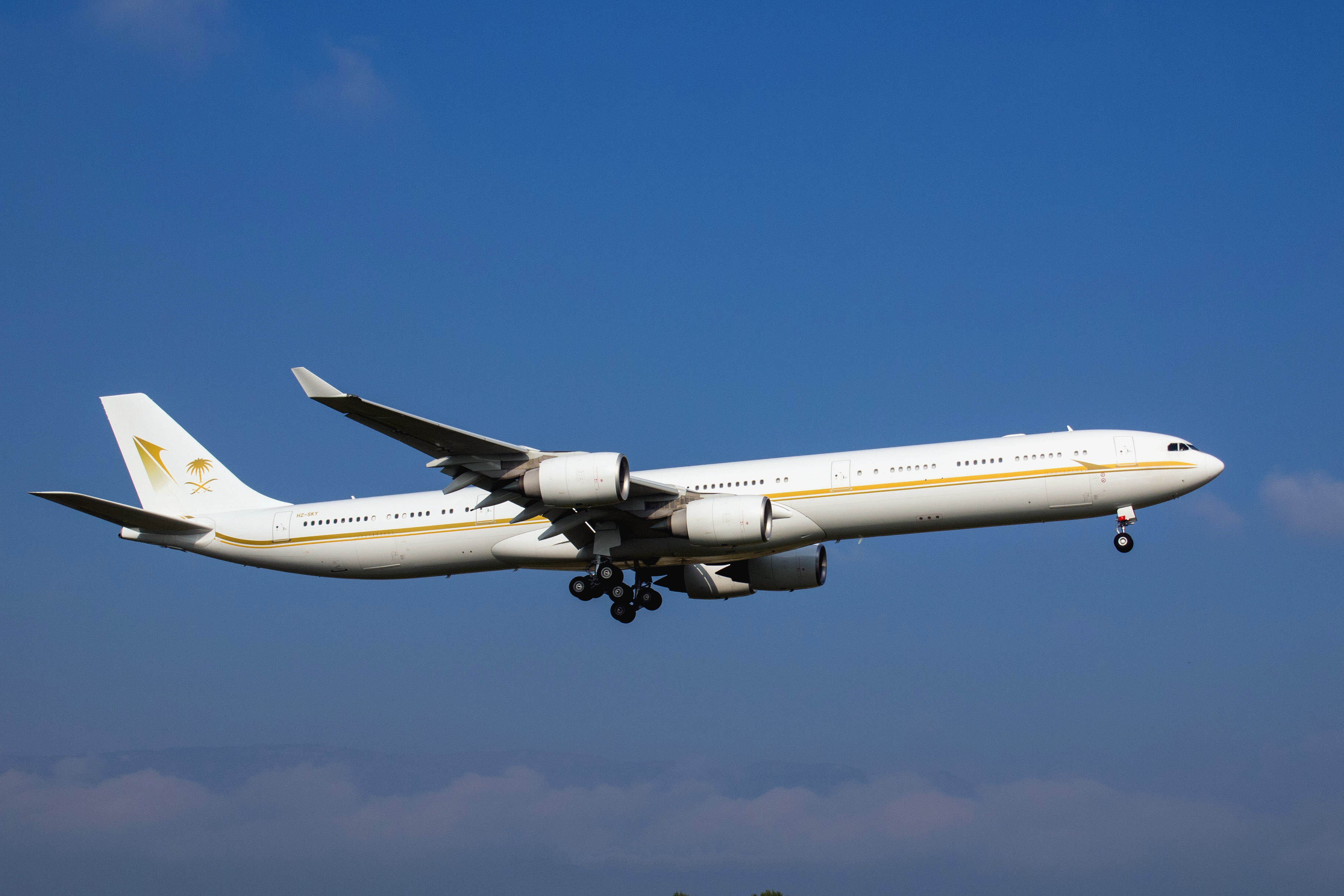 GVA 22.09.2016